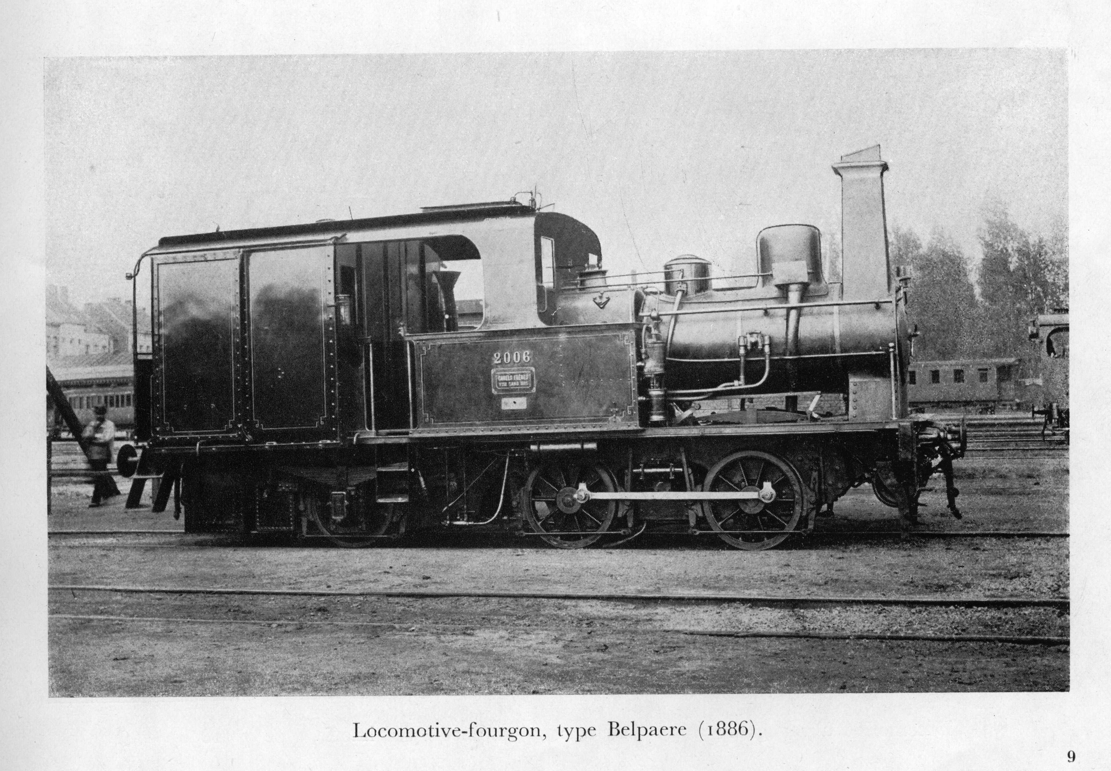 Type Balpaere locomotive nr 2006 in Belgium. Build in 1886.